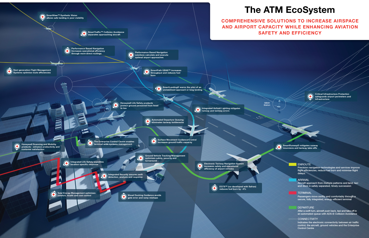 Air Traffic Management EcoSystem